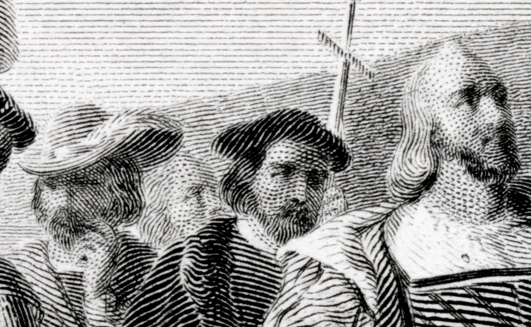 Bureau of Engraving and Printing engraved vignette of John Vanderlyn’s painting Landing of Columbus. Multiple versions of the engraving exist.